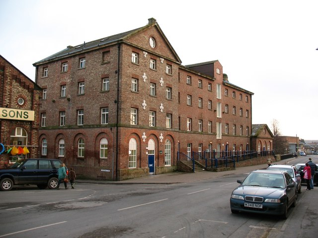 Former flour mills, Railway Street A large, former mill building that looks to be of the 19th century. Originally it was Hurtley and Son's flour mill, becoming a biscuit mill in 1887. Well sited next to the River Derwent, which was once navigable to this point, whilst maps of 100 years ago show a railway track branch extending to the front of the mill building. It now appears to be residential.